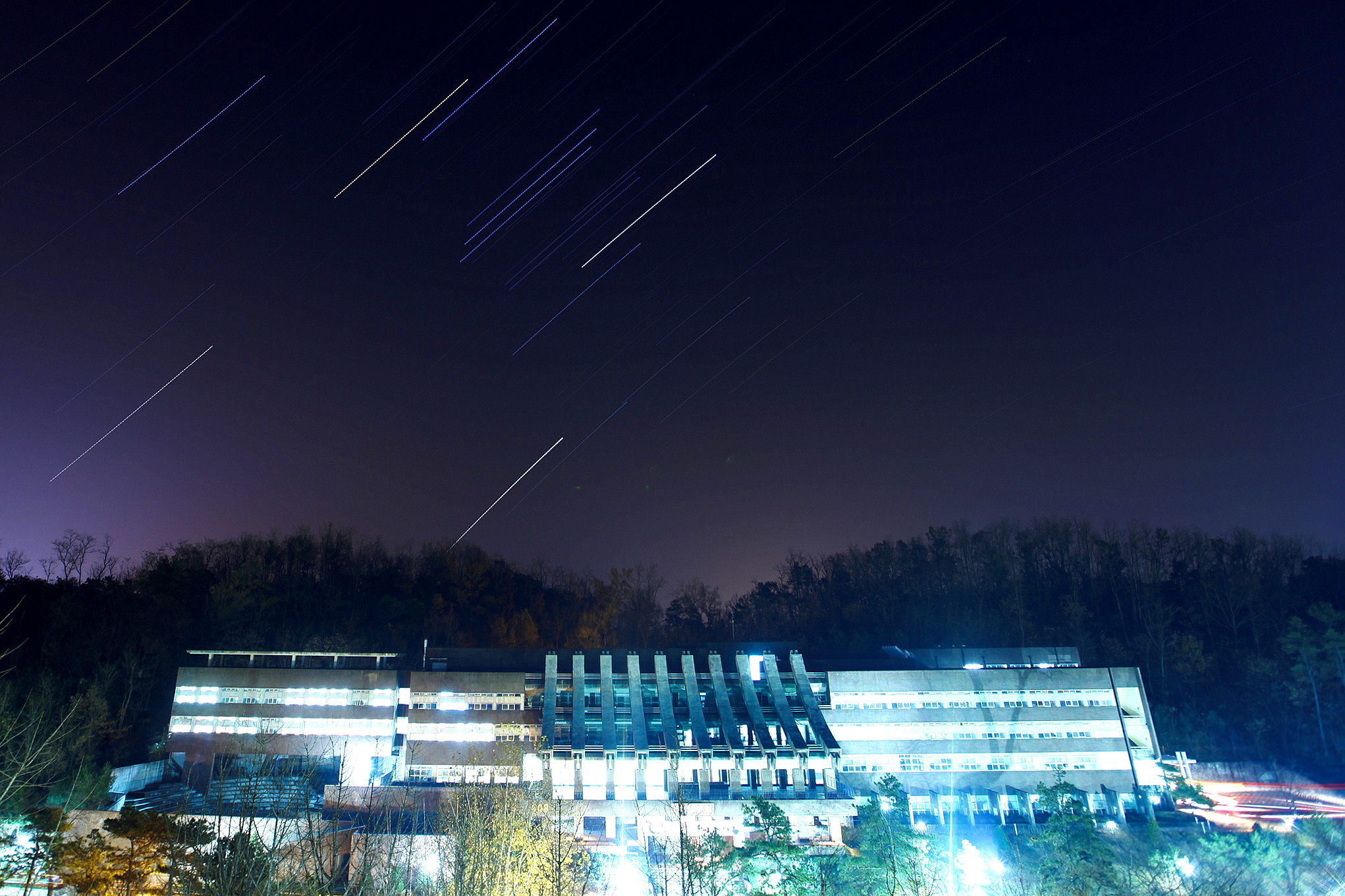 Chung-ang Univ. Guk ak kwan